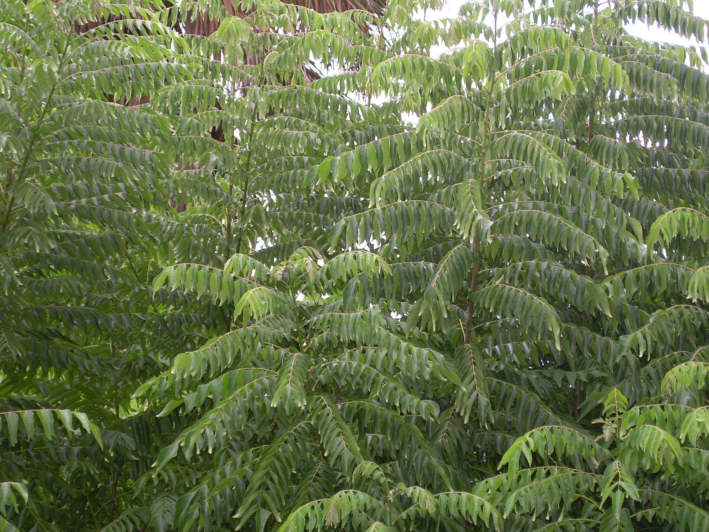 Photo taken from my garden.